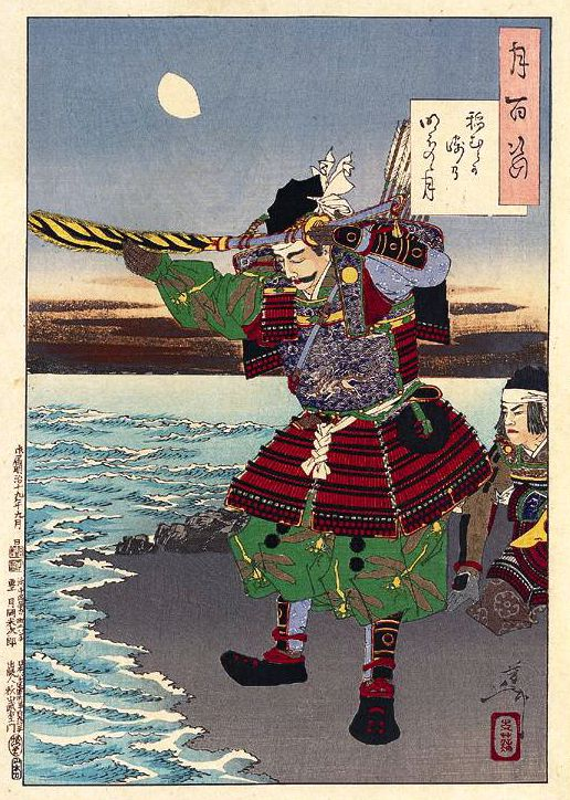 Inamura Promontory moon at daybreak (Inamurgasaki no akebono no tsuki)